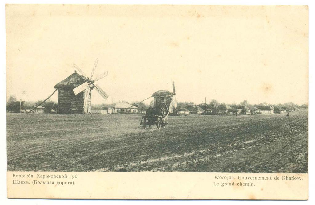 Main road in Vorozhba (Kharkov Governorate). Early XX century postcard